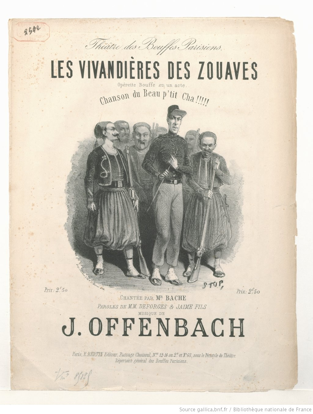 Engraved title page of an edition of "Chanson du Beau p'tit Cha", from the operetta "Les Vivandières des zouaves" by Jacques Offenbach (1859)